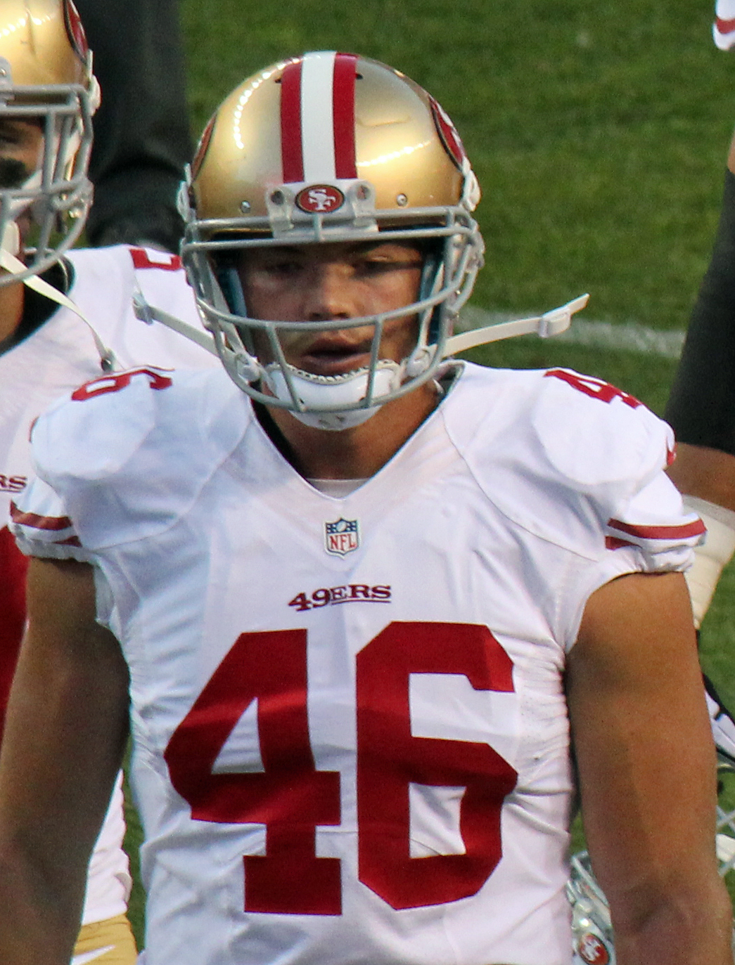 Derek Carrier, a player on the National Football League.